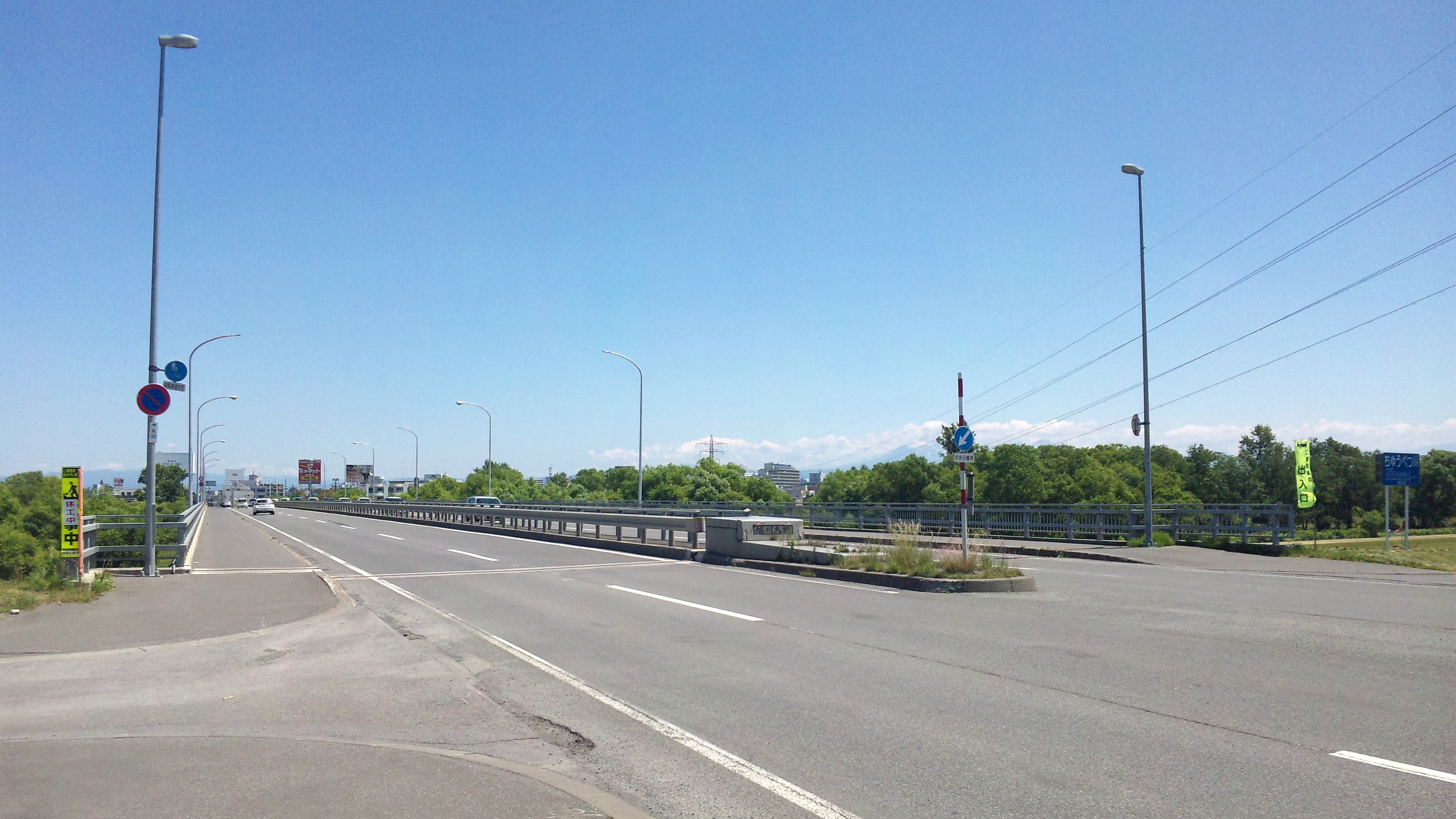 Asahikawaohashi Bridge, in Hokkaido, Japan